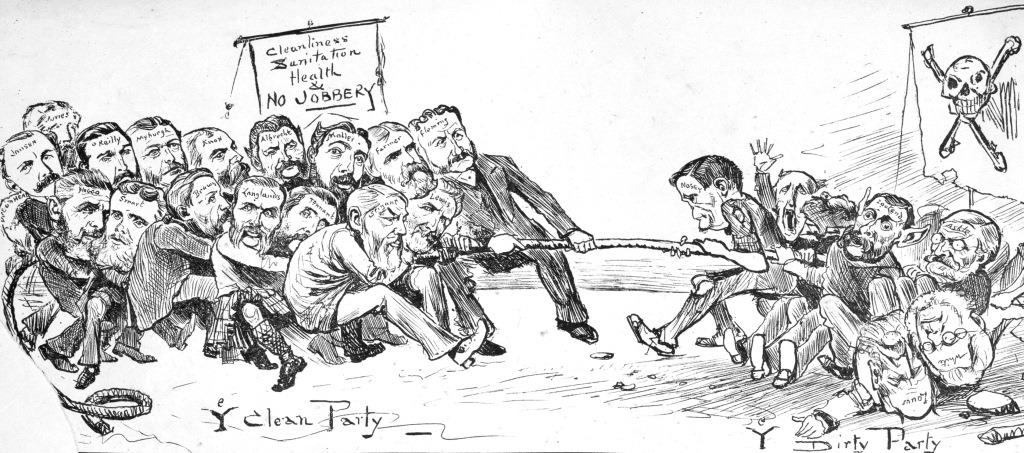 Lantern cartoon in support of Clean party. Tug of war. From left - Sir John Woodhead, Jansen, unknown, Higgo, Thomas O'Reilly, George Smart, Myburgh, J.L. Brown, Knox, Langlands, Albrecht, Tennant, Maller, Philip John Stigant, William Mortimer Farmer, Charles Lewis, William Fleming. Dirty Party composed of Jan Christiaan Hofmeyr ("Nosey"), Alwyn Zoutendyk, M.J. Louw, Dr Henry White, G.A. Ashley.